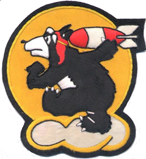 Emblem of the 471st Bombardment Squadron (World War II)